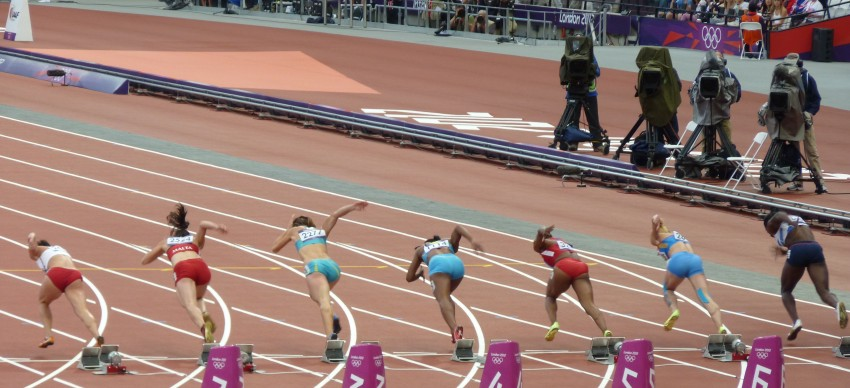 Olympic Stadium, Friday 3 August, London Olympic Games, Marta Jeschke, Diane Borg, Olga Bludova, Sheniqua Ferguson, Carmelita Jeter, Olga Belkina, Anyika Onuora